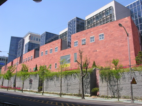 Building 7 (KMU)